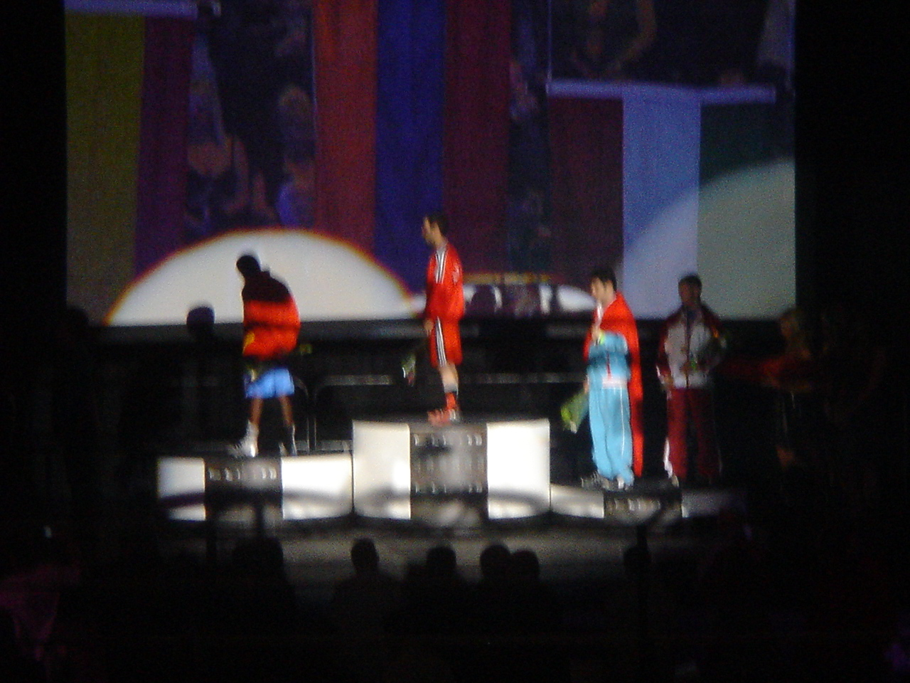 Hovhannes Danielyan, Jose de la Nieve Linares, Istvan Ungvari and Ferhat Pehlivan